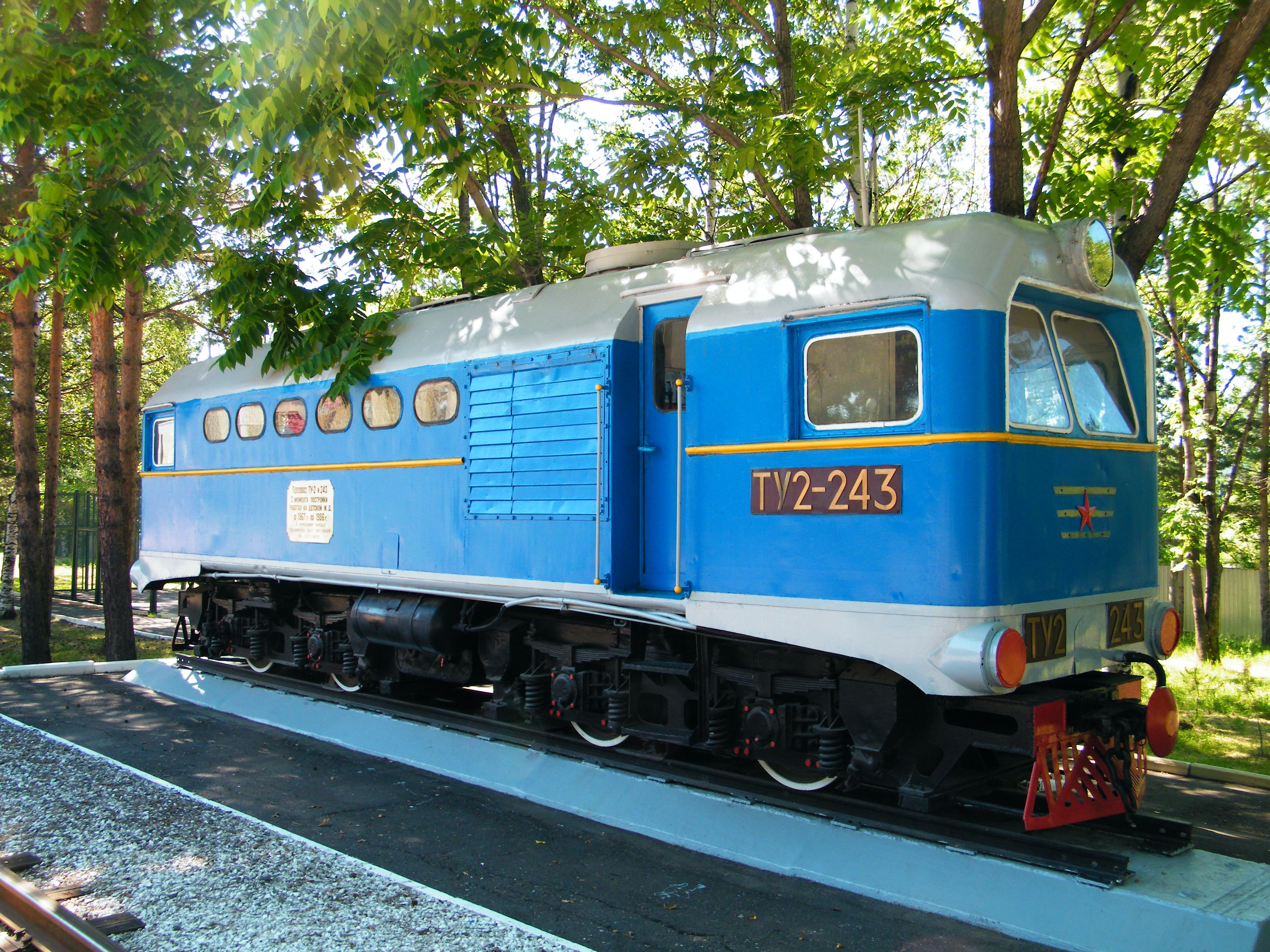 Malaya Dalnevostochnaya, Khabarovsk